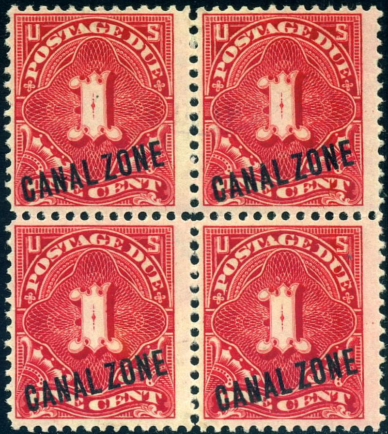 Canal Zone Postage Due, 1c, block of 4